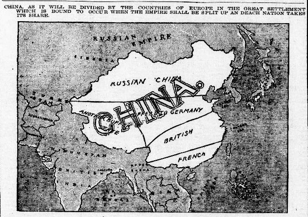 A map of China from 1900 with China being divided among various European powers